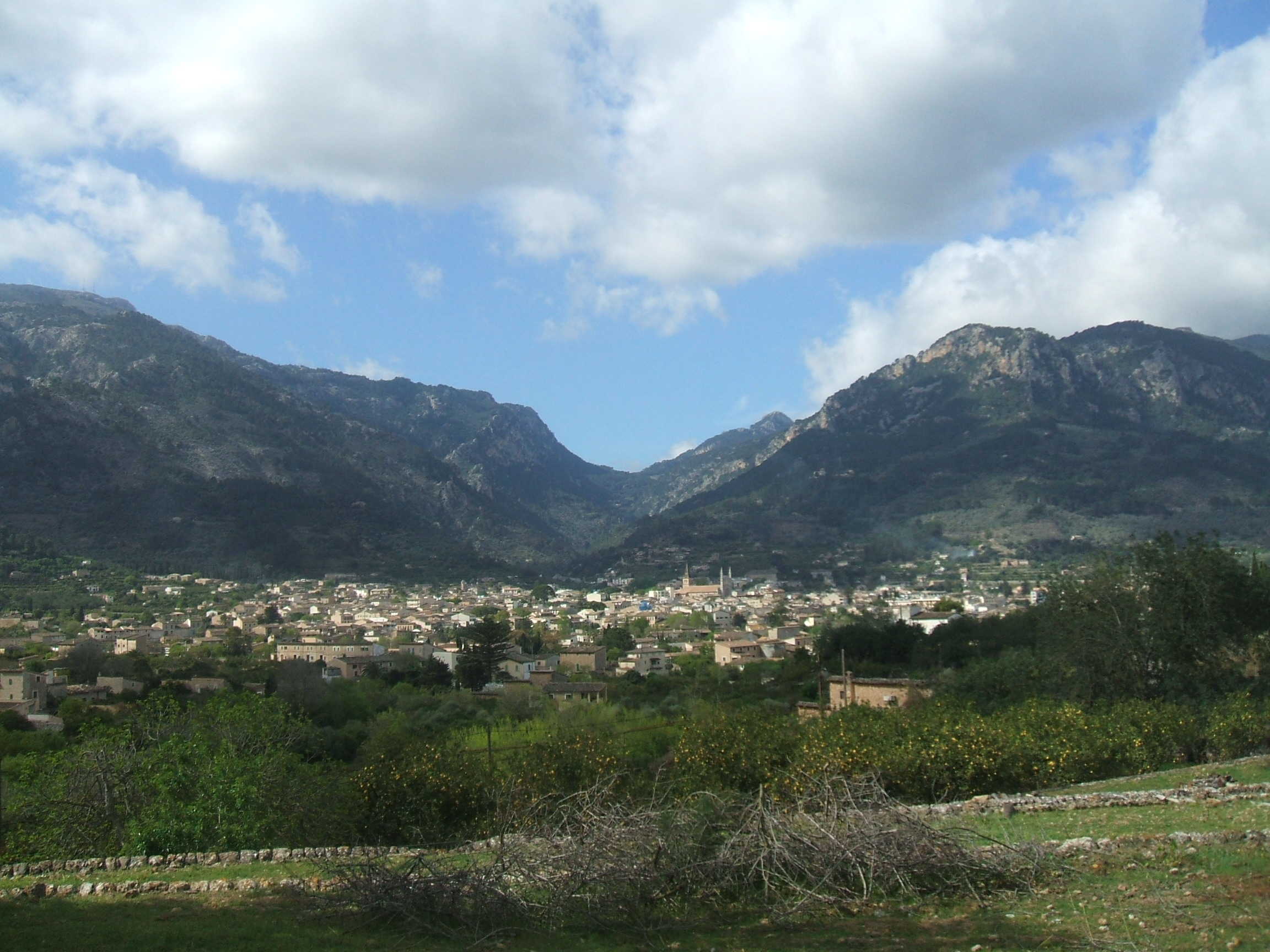 Cityscape of Sóller from the North.